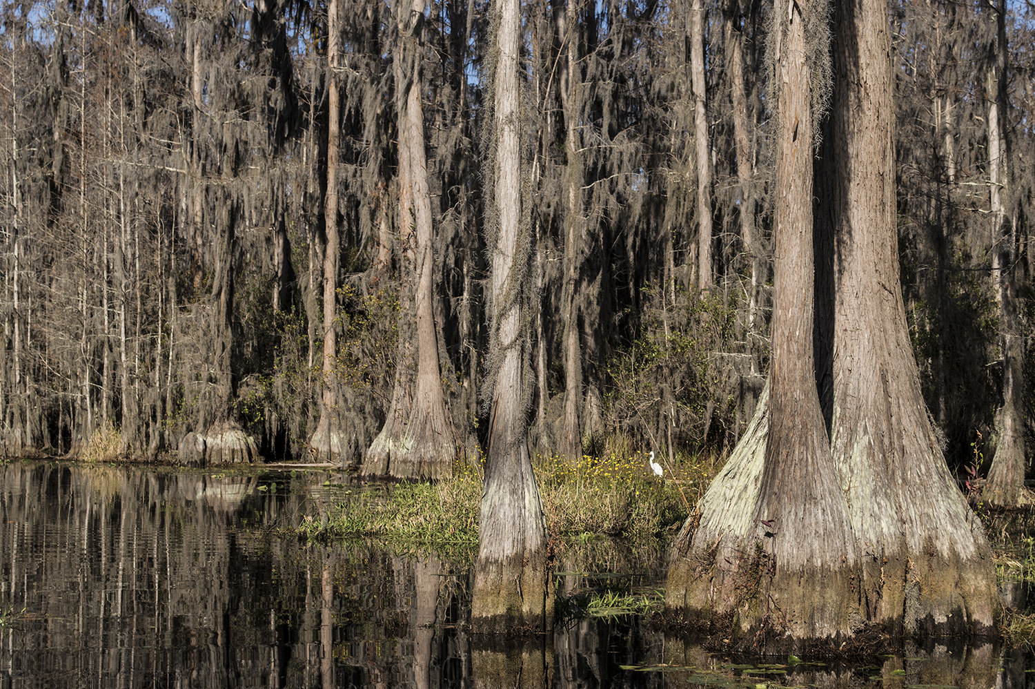 Beautiful cypresses on the water.